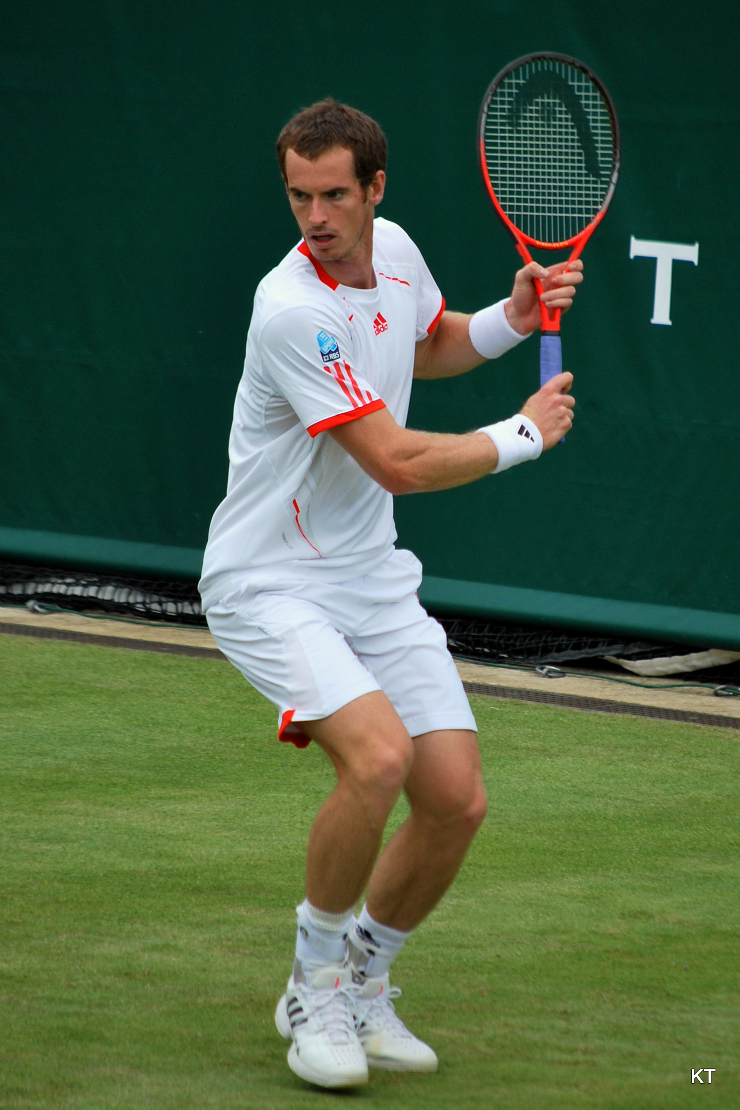 The Boodles, Stoke Park, June 2012.